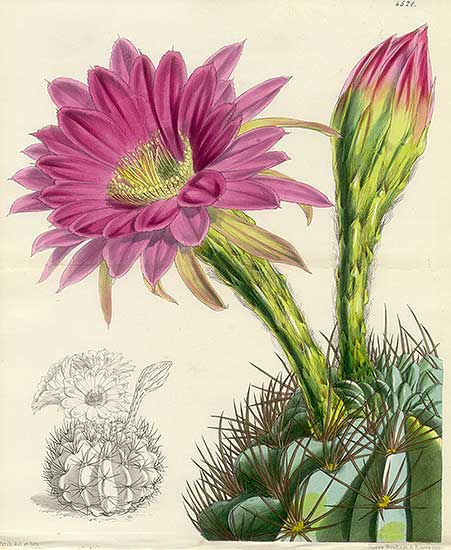 Title :Cactus (Double Sized Print) - Echinopsis cristata v. Purpurea, Bolivia (TBA)